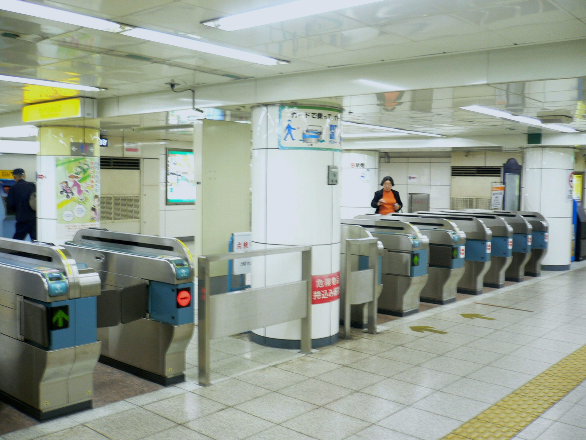 Kamiyachō Station (神谷町駅), Minato W, Tokyō M.